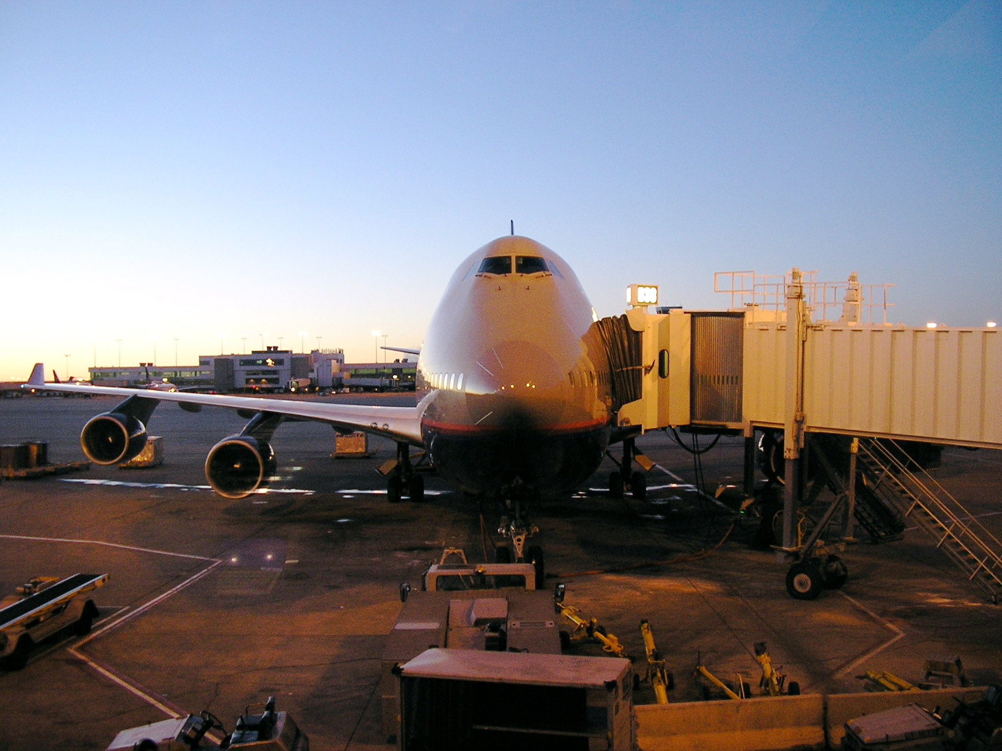 United Airlines Boeing 747 at Denver International Airport. Photo by L. Chang.